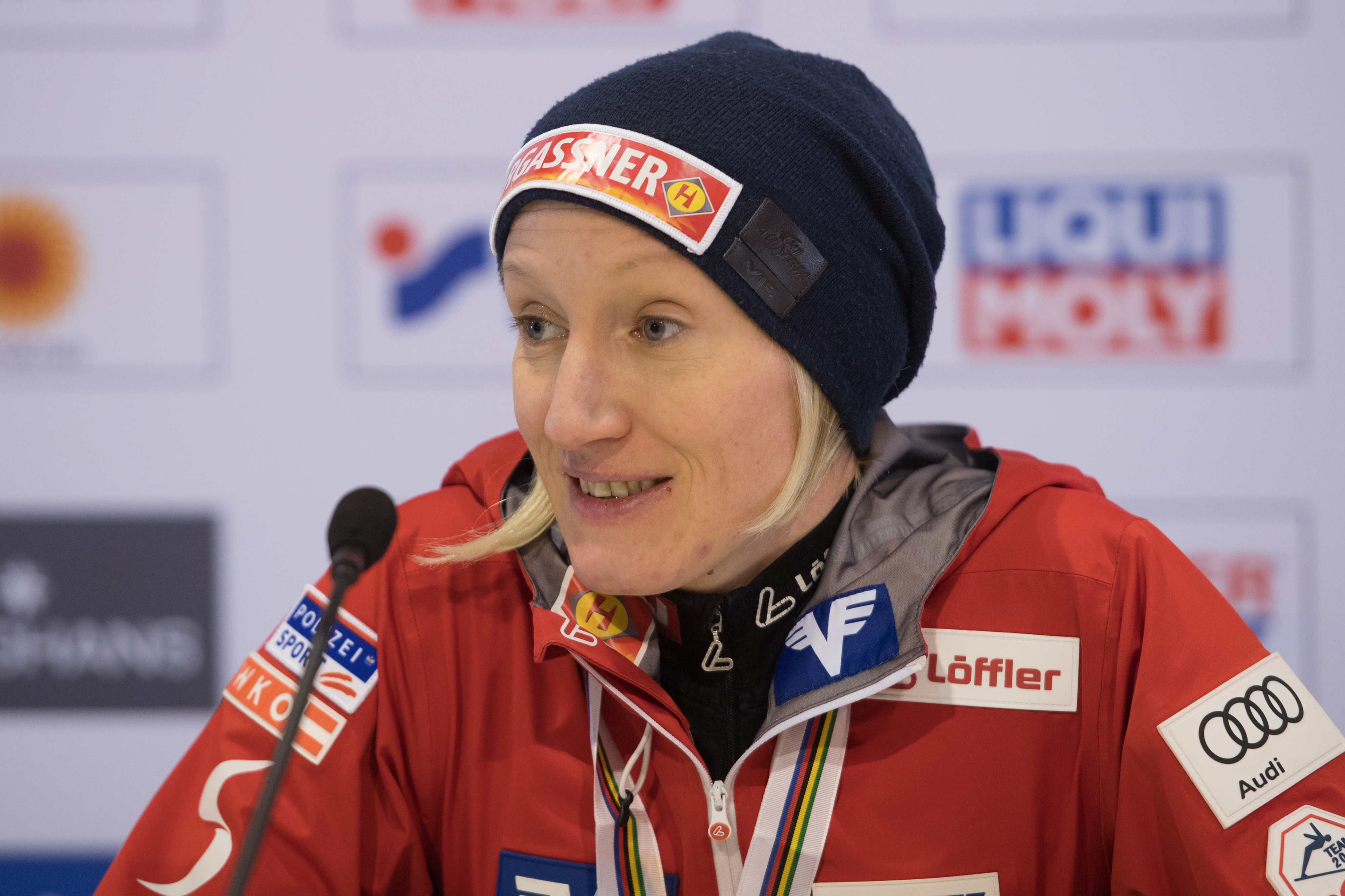 Seefeld, February 26, 2019: FIS Nordic World Ski Championships, Ski Jumping Ladies Normal Hill Team, Winner's Press Conference.